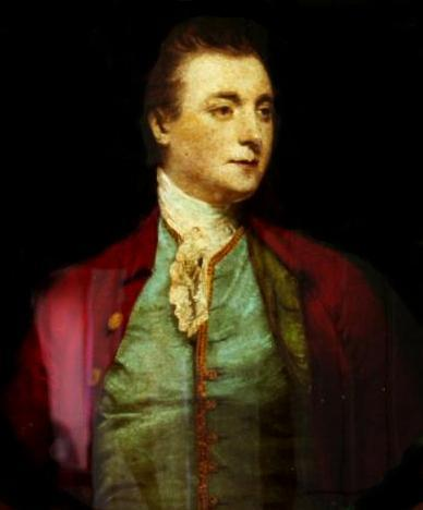 John Stuart, 3rd Earl of Bute, also known as Lord Bute was a Tory politician in Great Britain who became Prime Minister during the reign of George III.